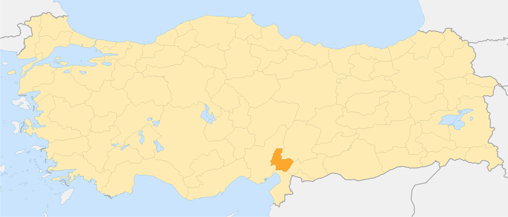 Shows the location of the province Osmaniye in Turkey